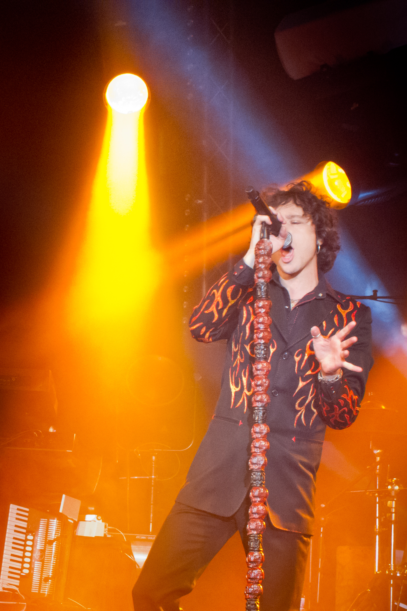 Enrique Bunbury during a concert in 2012.